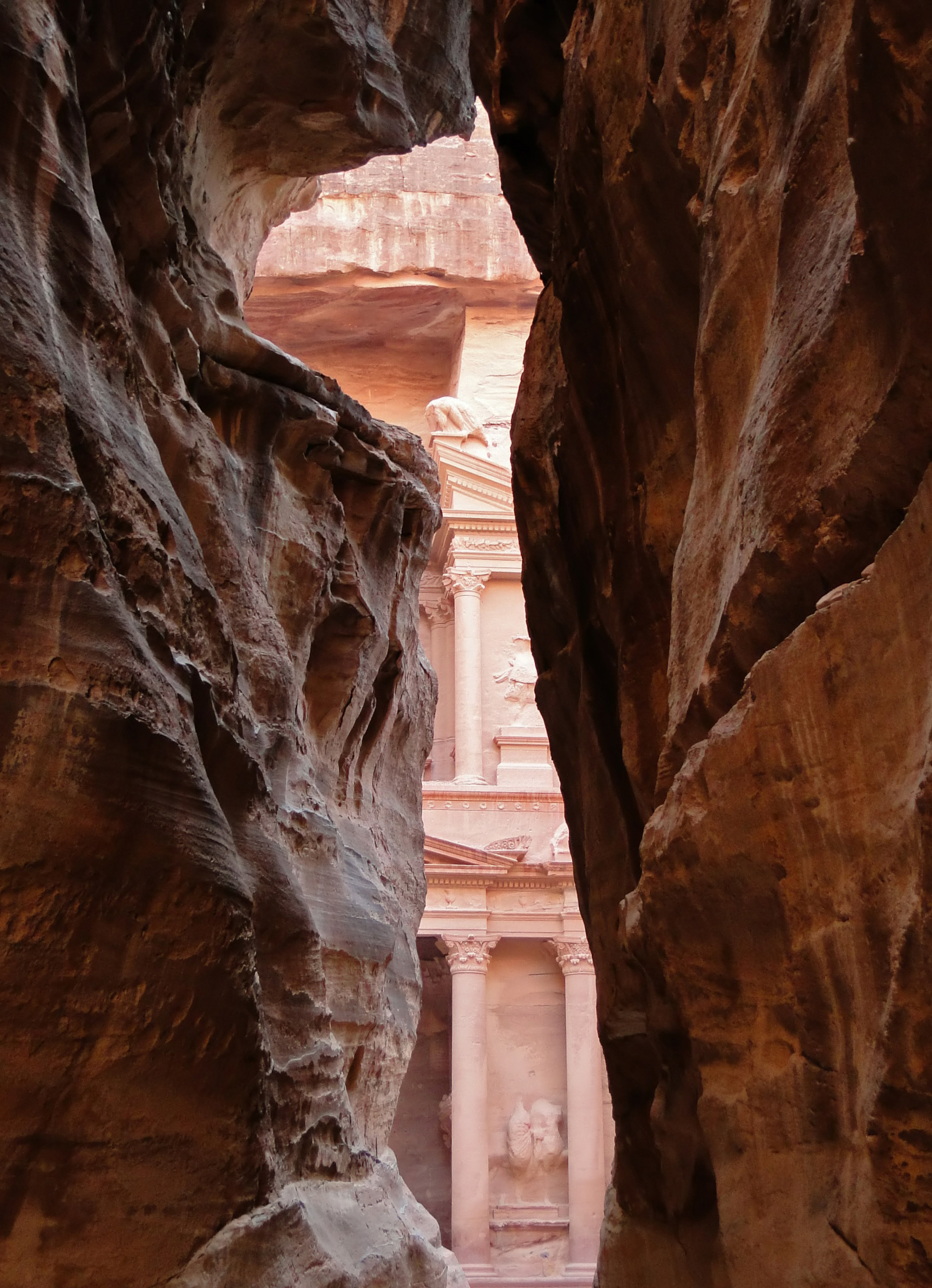 View on Al Khazneh from al-Siq, Petra, Jordan